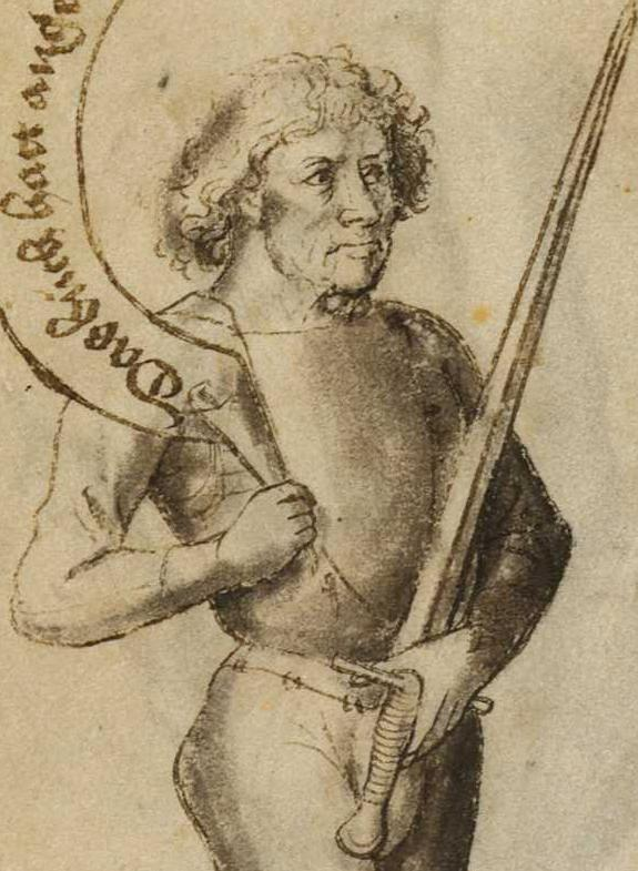 Portrait of German fencing master Hans Talhoffer, cropped from folio 136v of his 1467 treatise. See the full page scan for contextual display.